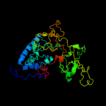 Predicted tertiary structure of PRR16 generated with I-TASSER